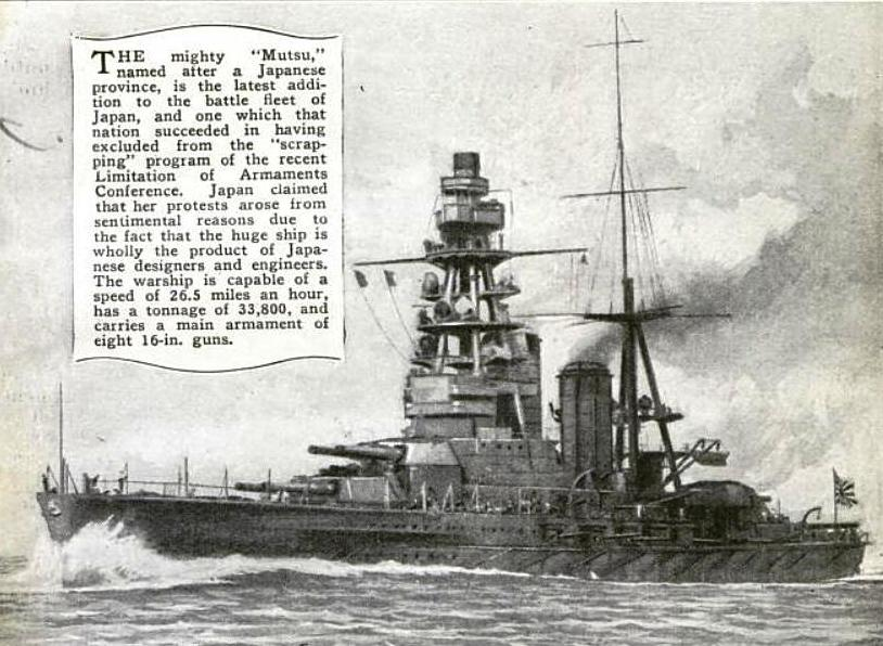 Photograph of the Japanese Battleship Mutsu shortly after commissioning circa 1922